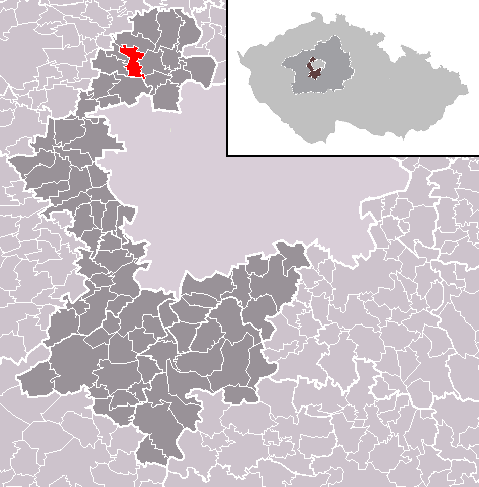 Location of Lichoceves municipality within Prague-West District and administrative area of Černošice as a Municipality with Extended Competence.